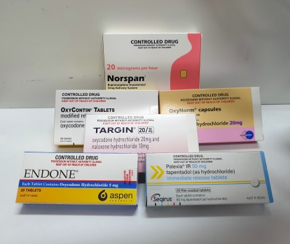 These medications are some of the most commonly prescribed schedule 8 medicines.